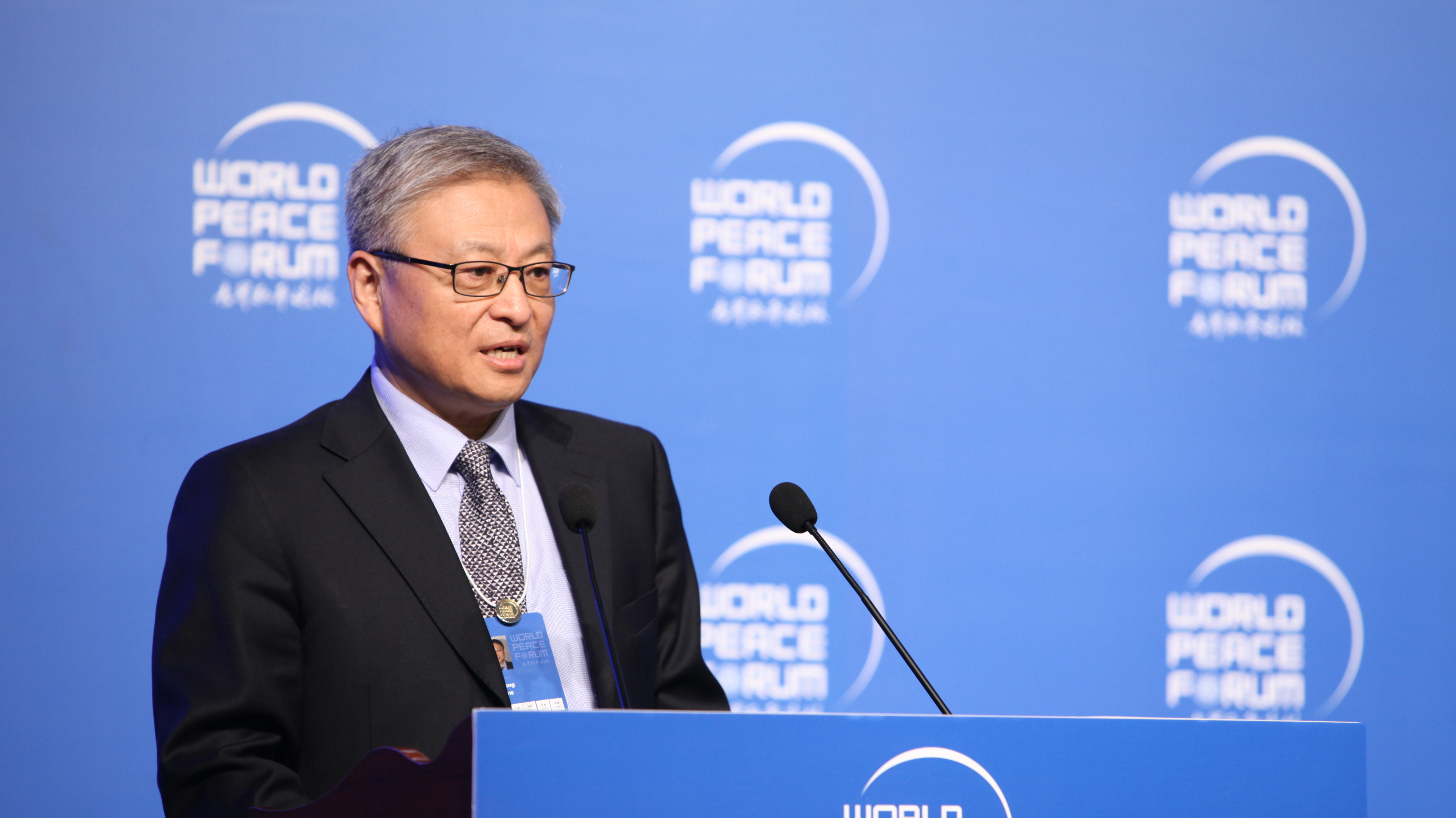 The fifth World Peace Forum in 2016